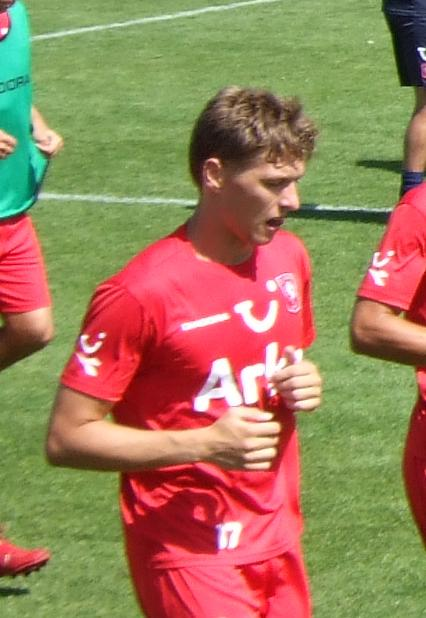 FC Twente player Alexander Bannink